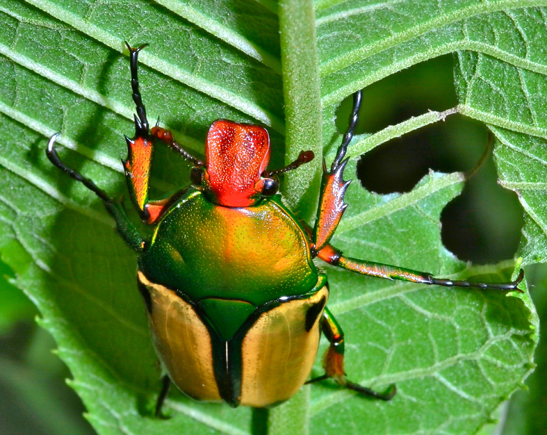 Bigodi Wetland Sanctuary, UGANDA